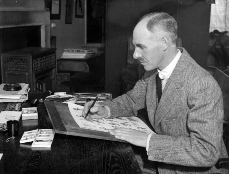 Cartoonist and caricaturist Henry Mayo Bateman (1887 - 1970) works on one of his sketches at his home in Reigate, Surrey.